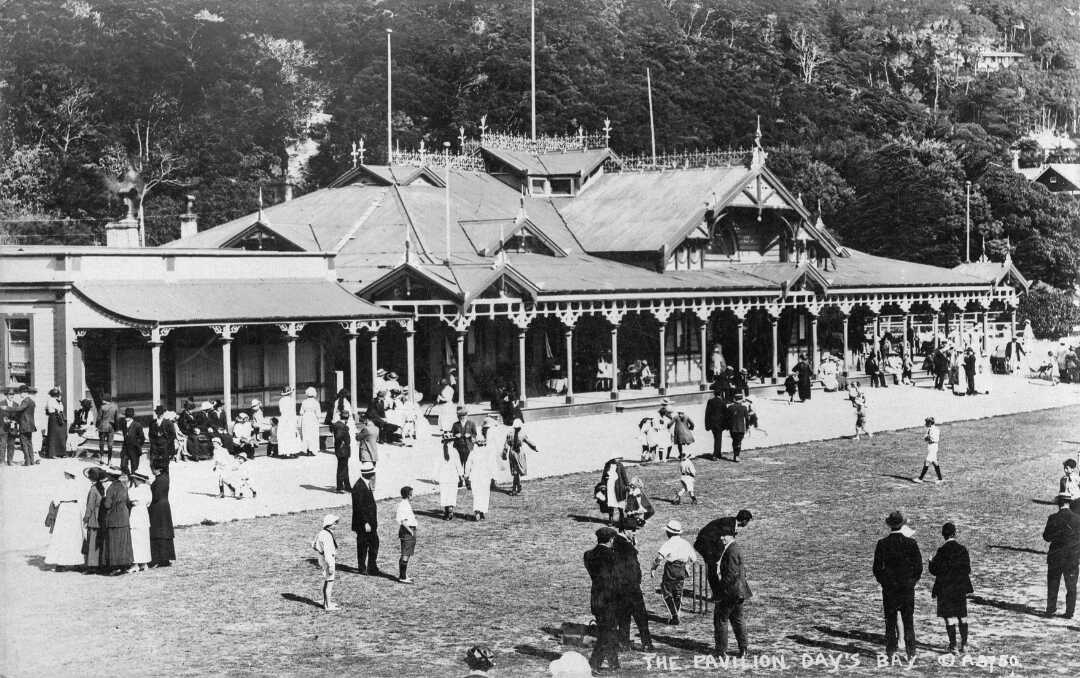 Day's Bay Pavilion, Wellington, New Zealand circa 1900